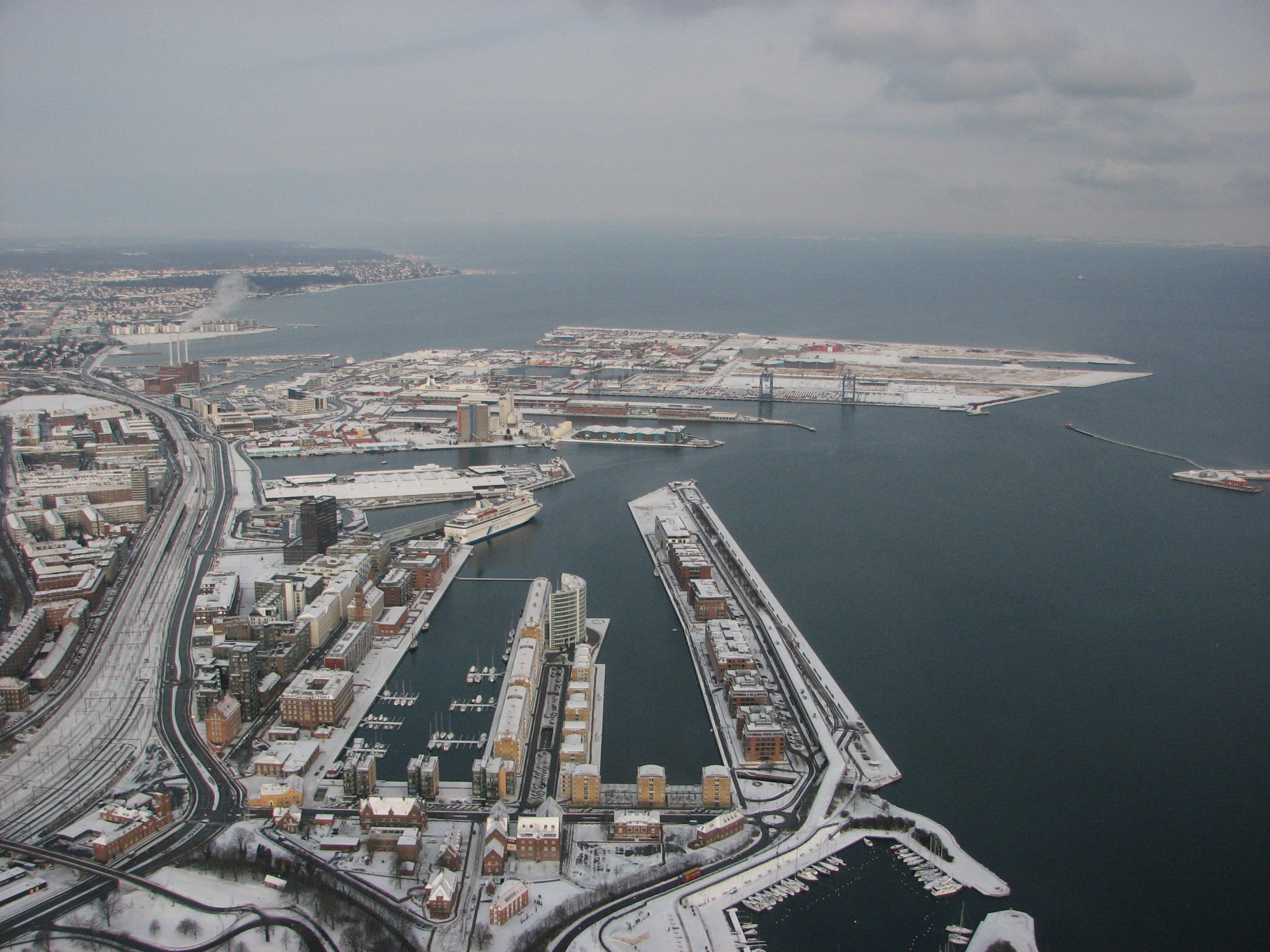 Nordhavnen in Copenhagen viewed from the air with Langeliniekaj in the front.